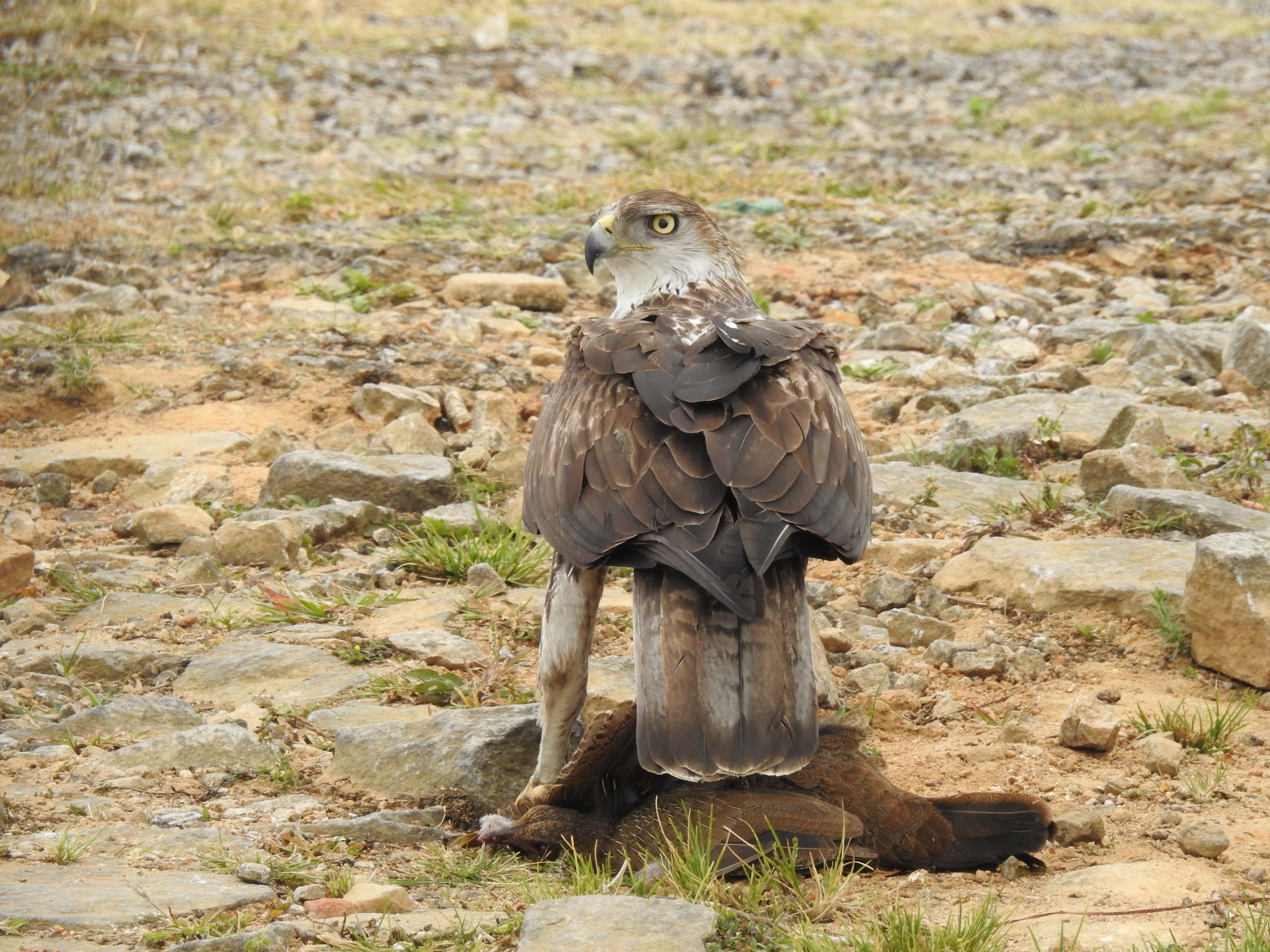 Bonelli's Eagle Aquila fasciata with a still alive female Grey Junglefowl Gallus sonneratii prey in the Anamalai hills, India.